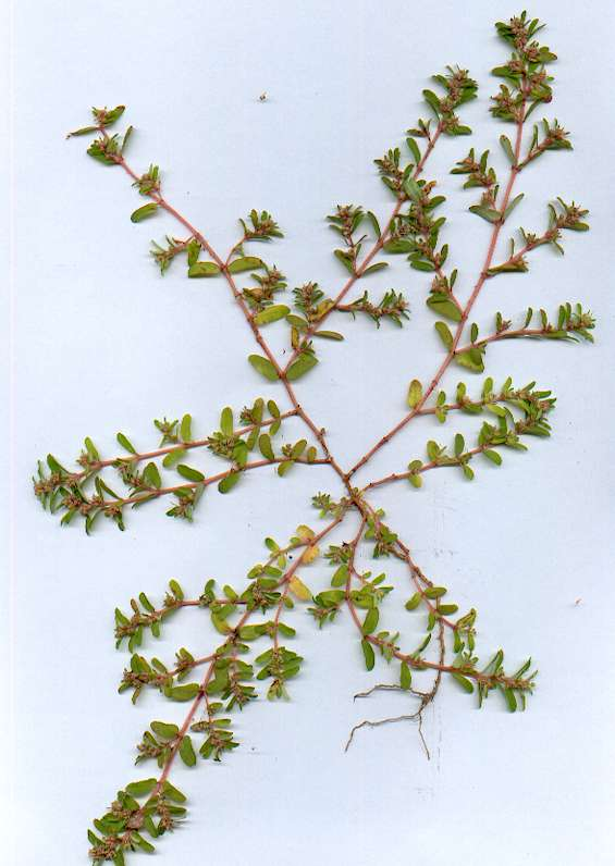 Euphorbia maculata (Synonym for Chamaesyce spec.), septembre 2004, Gradignan, Gironde, France.